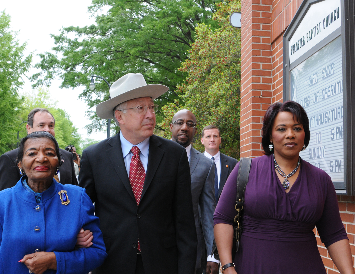 The sister of civil right's leader Dr. Martin Luther King, Jr., Christine King Farris (left), with former U.S. Secretary of the Interior Ken Salazar (center) and daughter of Dr. King, Bernice King (right) outside of the Ebenezer Baptist Church in Atlanta, Georgia.